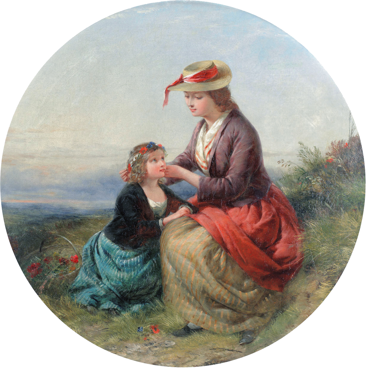 A spring headdress oil on canvas 67.3 x 67.3 cm signed b.l.: J.J.Hill